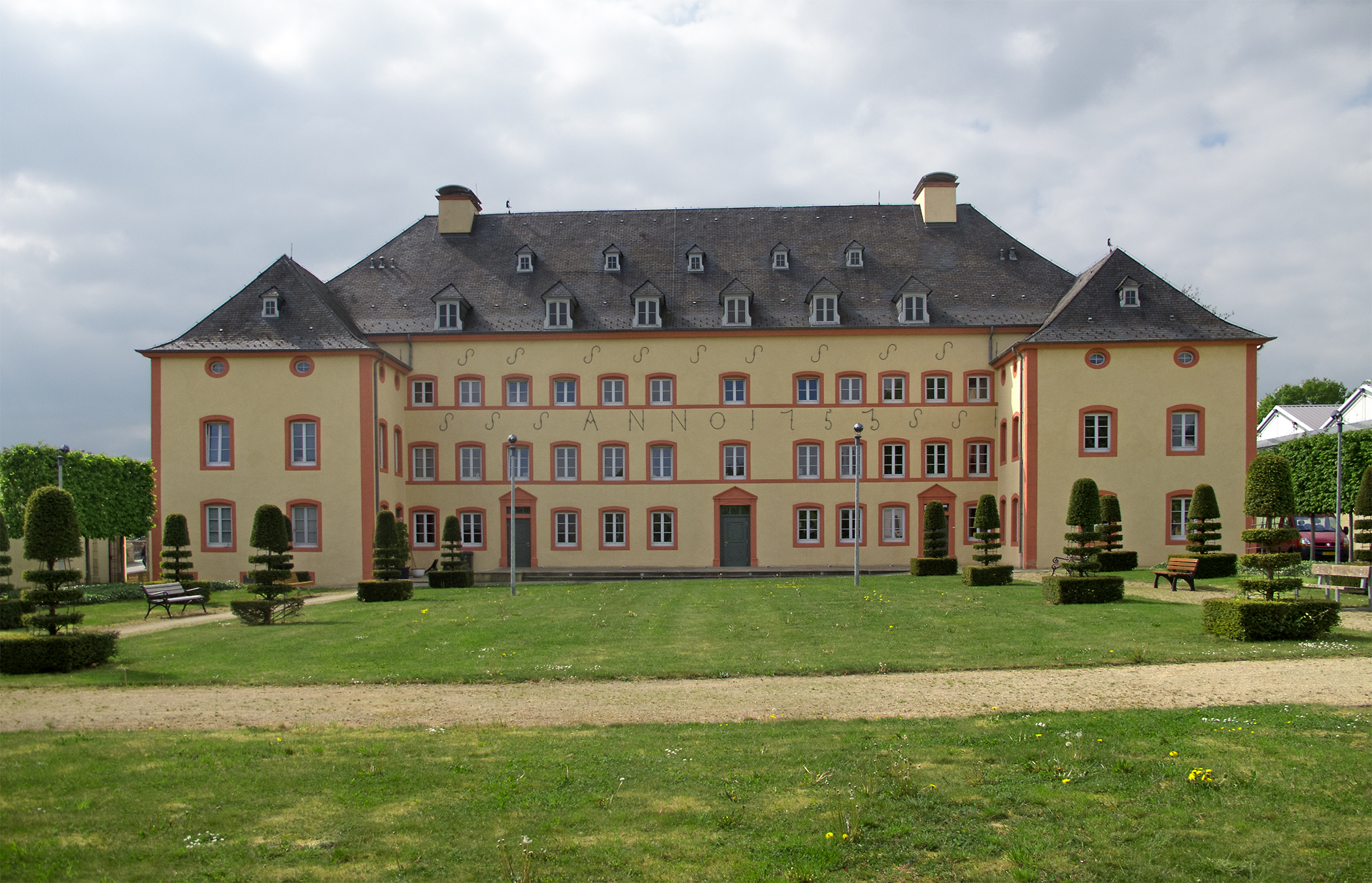 Castle Bettange-sur-Mess